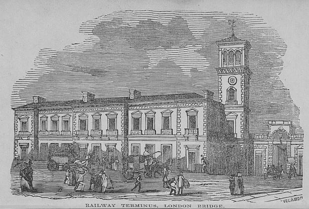 The original London Bridge Station